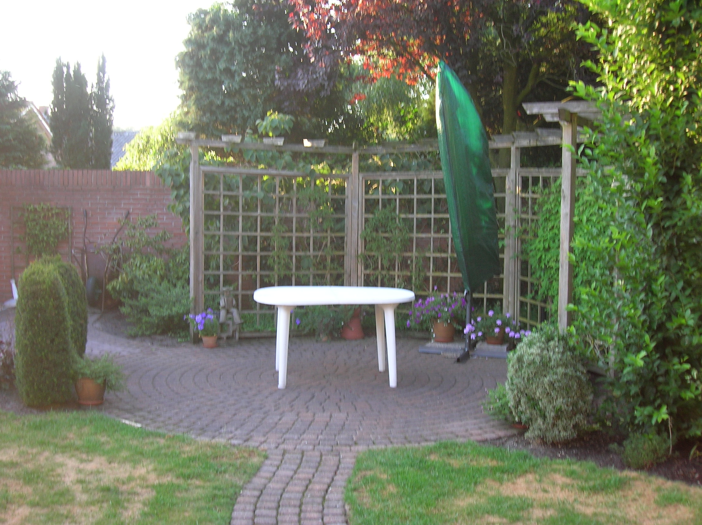 Garden terrace, with outdoor table and folded and packed parasol.